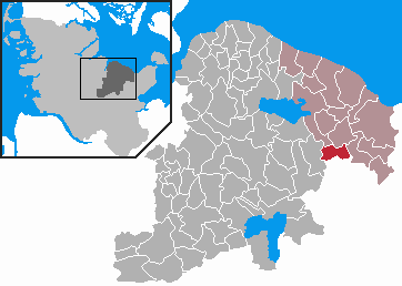 This map shows the area of the Gemeinde (municipality) Dannau in the Kreis (district) Plön, Schleswig-Holstein, Germany.